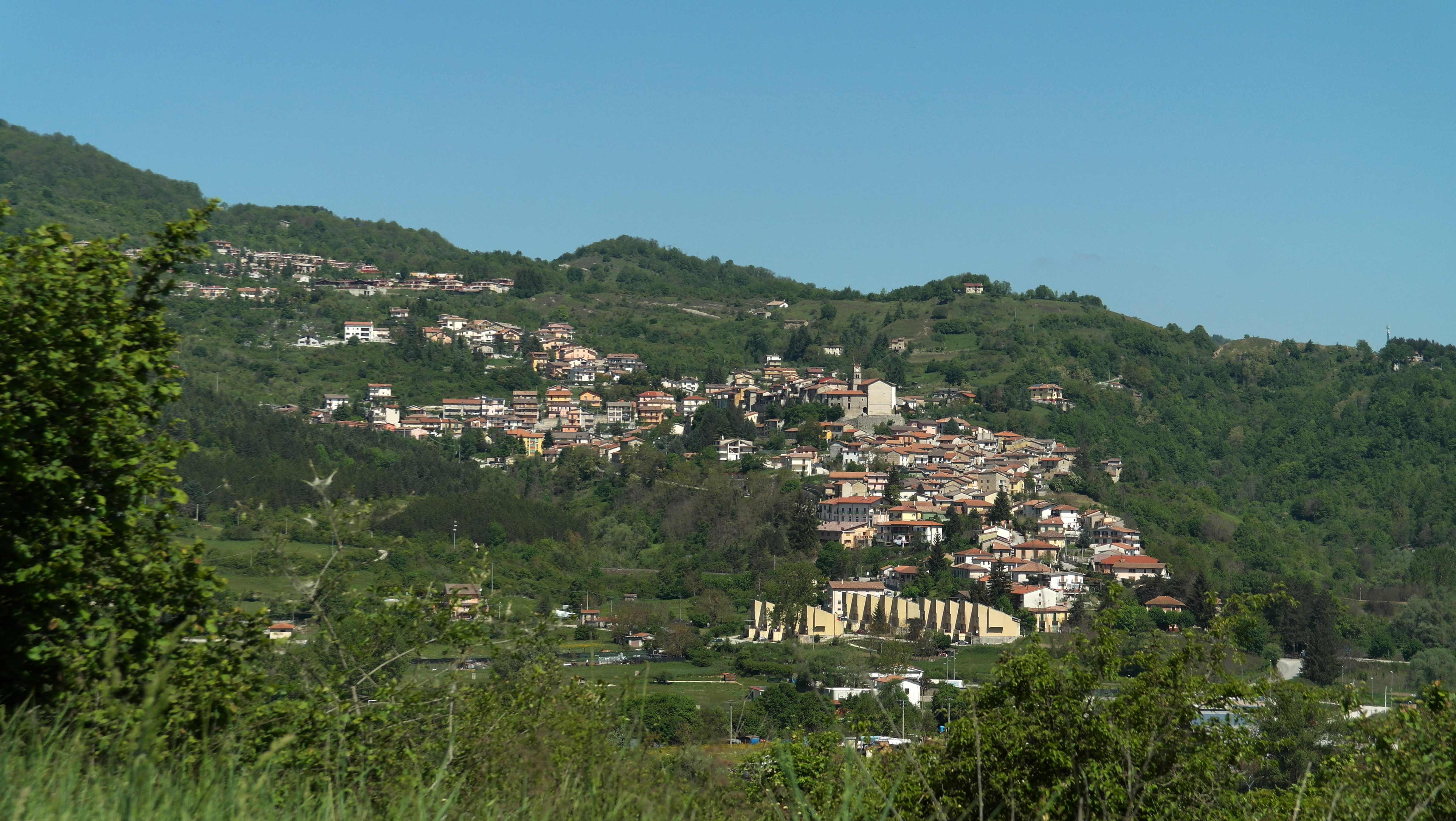 Sante Marie, Province of L'Aquila, Italy